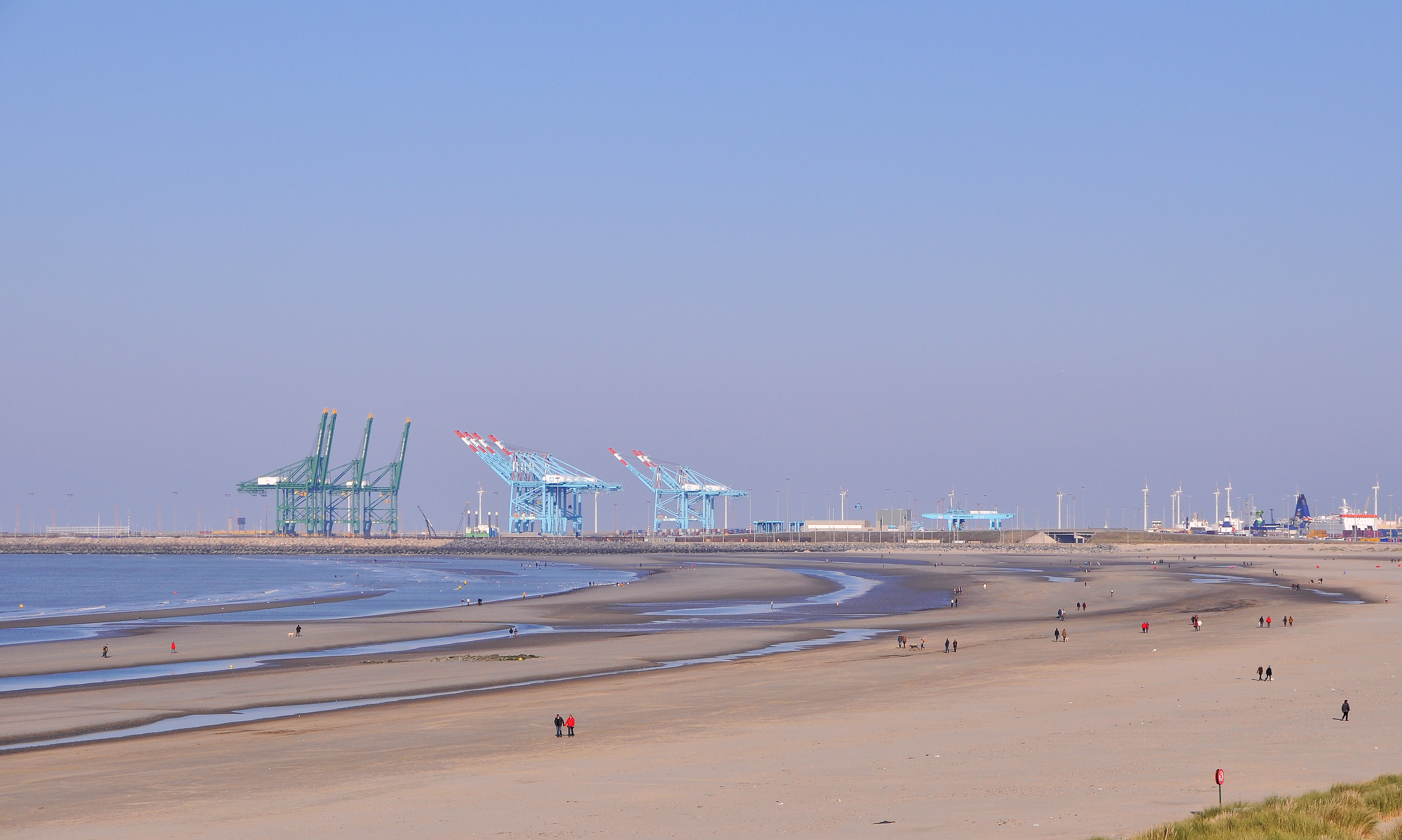 Zeebrugge (Bruges, Belgium): the beach and (in the background) the port